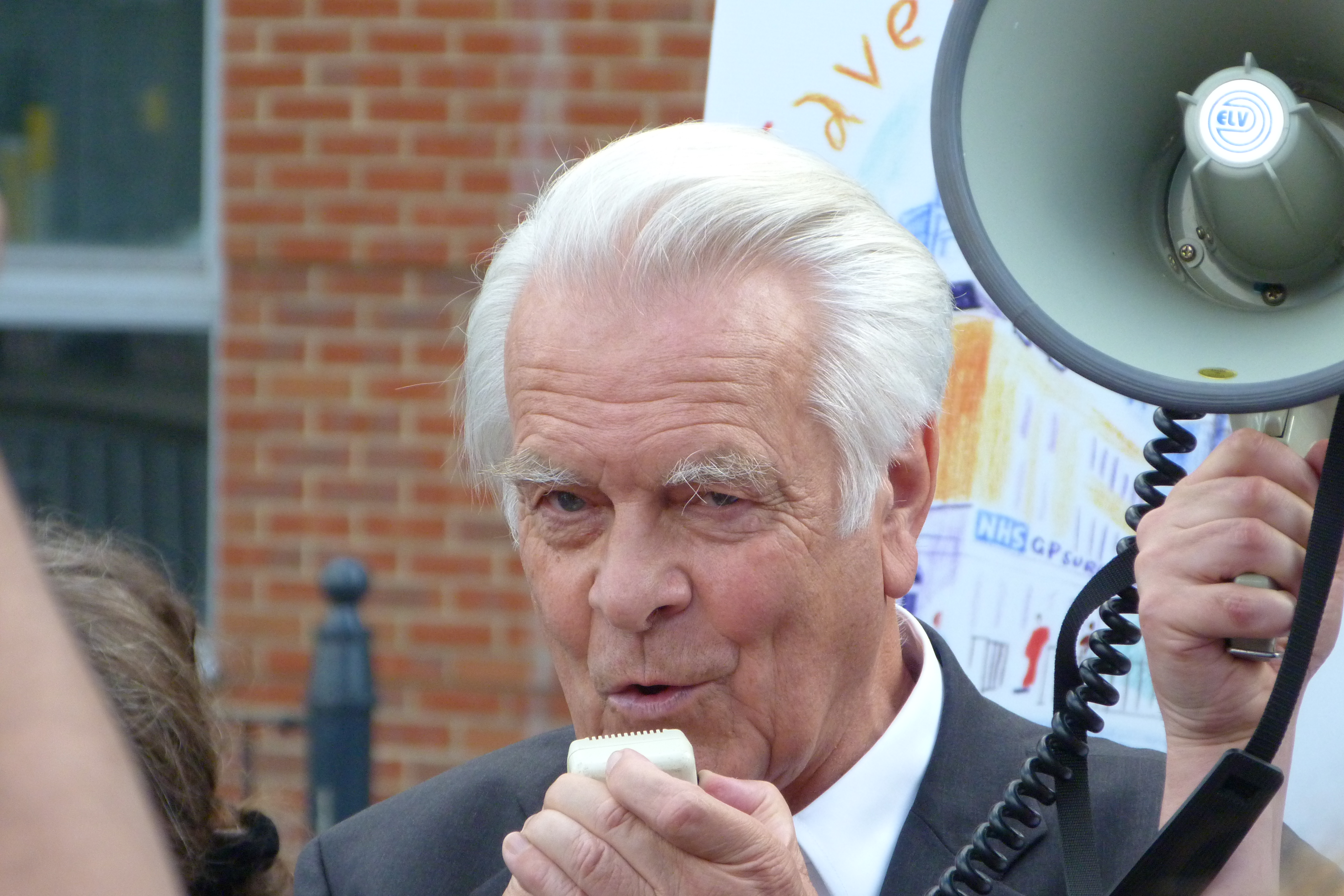 David Owen at a march